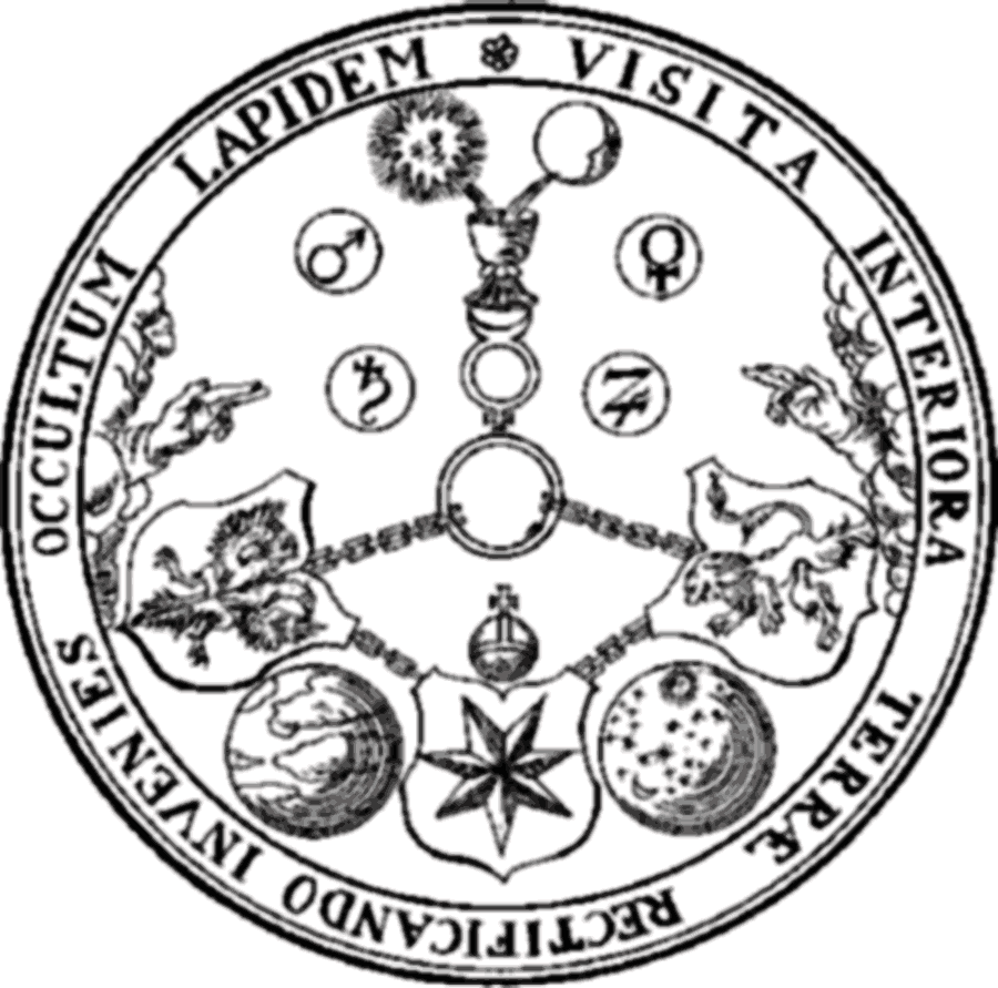 Anagrammatical, alchemical figure representing "Vitriol" here taken to stand for Visita interiora terrae; rectificando invenies occultum lapidem ("Visit the interior parts of the earth; by rectification you will find the hidden stone".) This from Basil Valentine's Chymical Wedding.